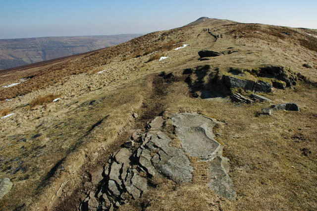 Rock on Chwarel y Fan There is little bare exposed rock on the Black Mountains, these rocks are to the north of Chwarel y Fan.